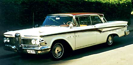 A 1959 Edsel Corsair, registered in Hanover, Germany.